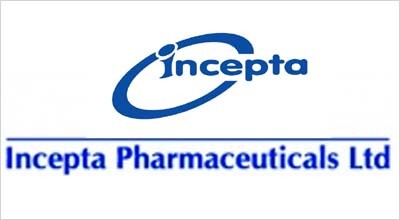 Incepta logo